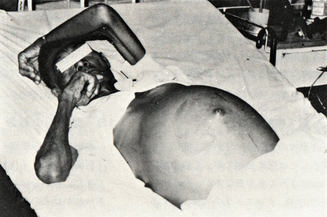 The patient that the abdomen swells up by dropsy by Schistosomiasis japonica